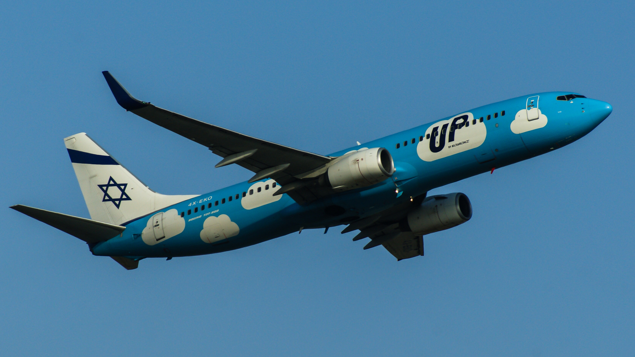 4X-EKO - EL-AL אל על - Boeing 737-86Q - BUD-TLV - 20-Jan-2016. Taken with Sony 75-300.